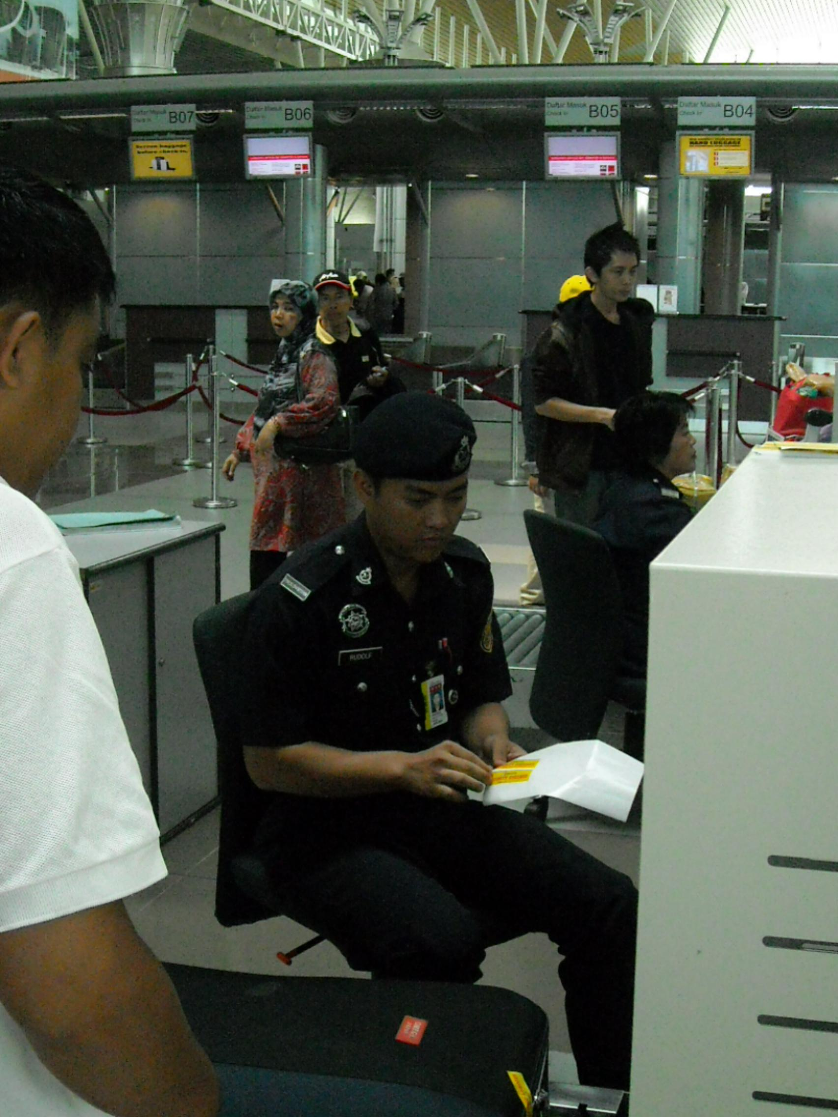 A Malaysia Airport Auxiliary policemen was examining luggage list were inspected through in a scanner machine before brought out into an AirAsia passenger aircraft cargo. Taken by me at Kota Kinabalu International Airport, Kota Kinabalu, Sabah, Malaysia.